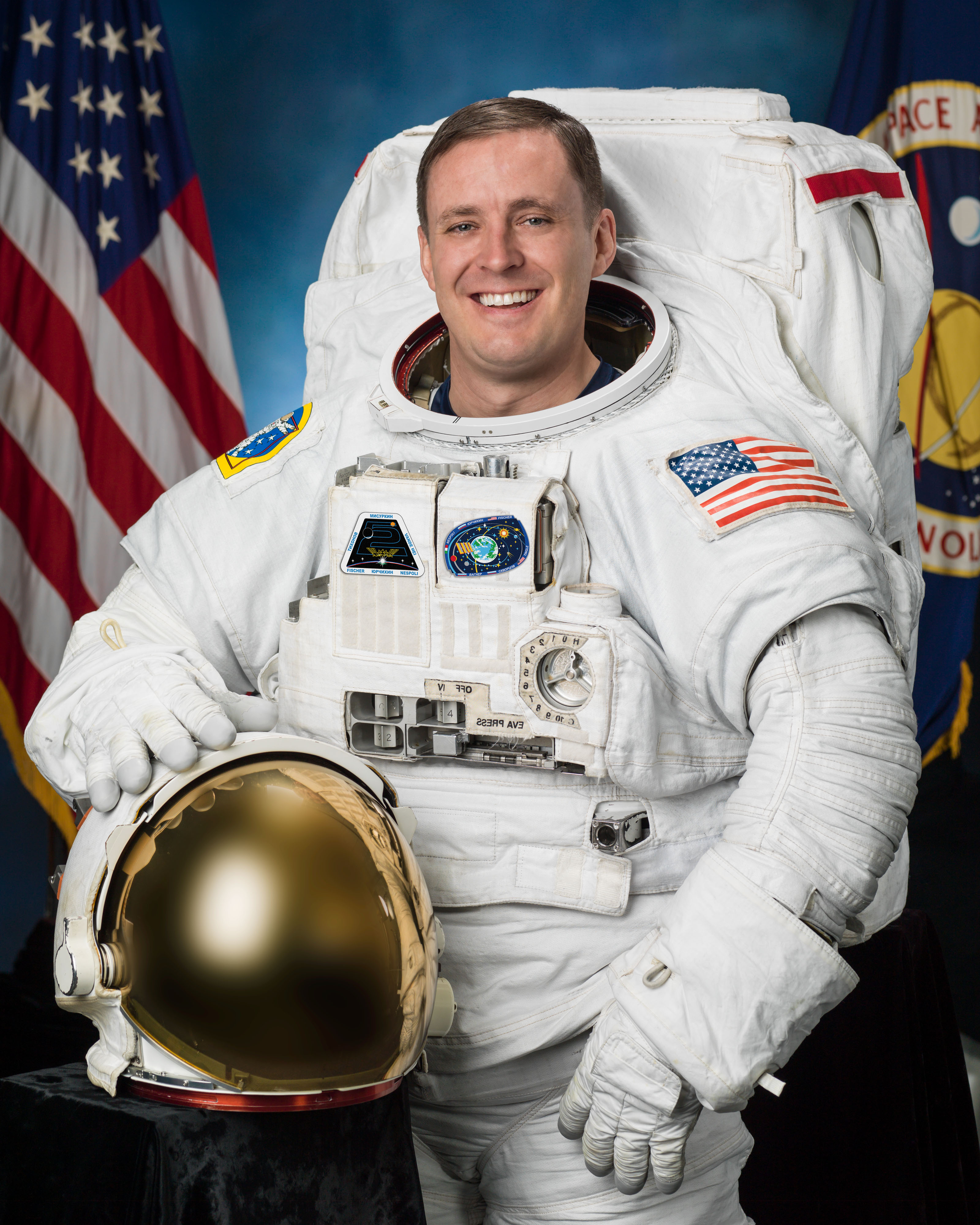 Official Astronaut Portrait of Jack Fischer in an EMU